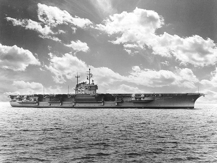 The U.S. Navy aircraft carrier USS Forrestal (CVA-59) in 1955.